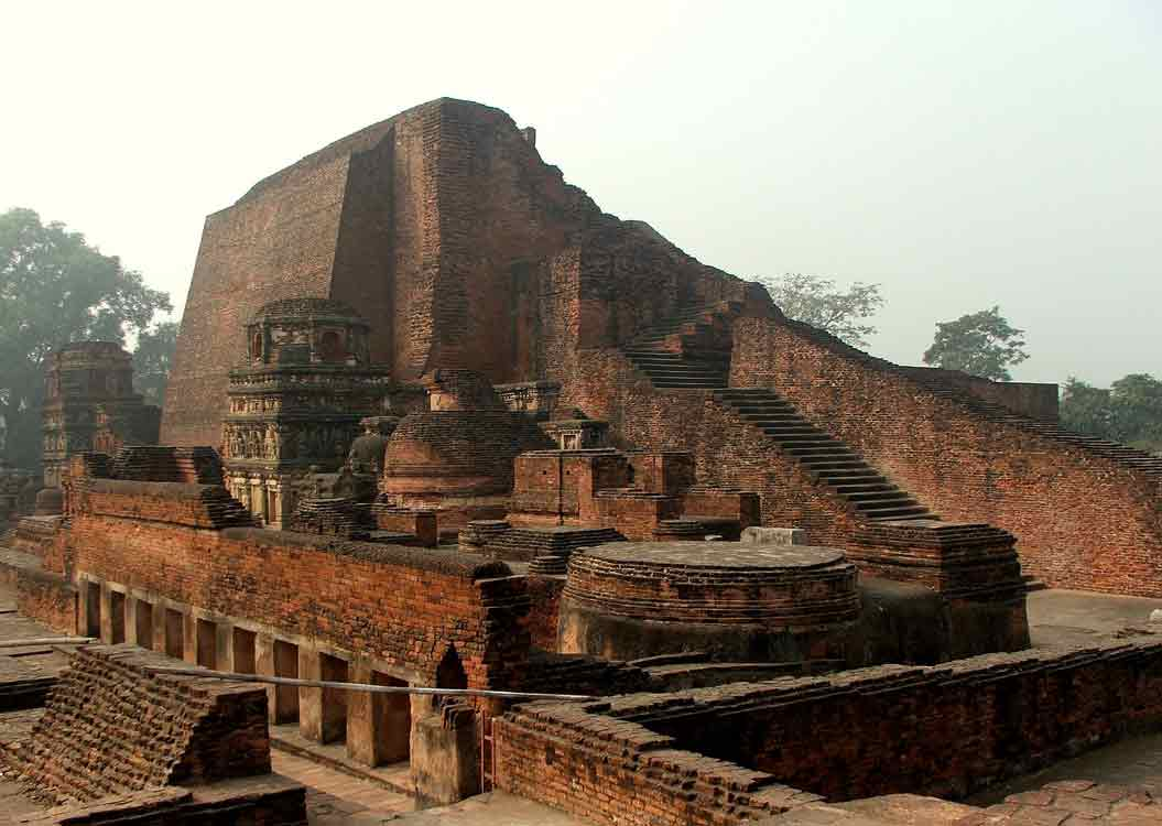 Nalanda is located in the Indian state of Bihar, about 55 miles south east of Patna, and was a Buddhist center of learning from the fifth century CE to around 1200 CE. Nalanda was ransacked and destroyed by Turkic Muslim invaders under Bakhtiyar Khalji in 1200. The great library of Nalanda University was so vast that it is reported to have burned for three months after the invaders set fire to it, ransacked and destroyed the monasteries, and drove the monks from the site. Nalanda means "insatiable in giving".